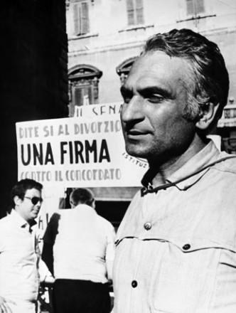 Marco Pannella, divorce campaign